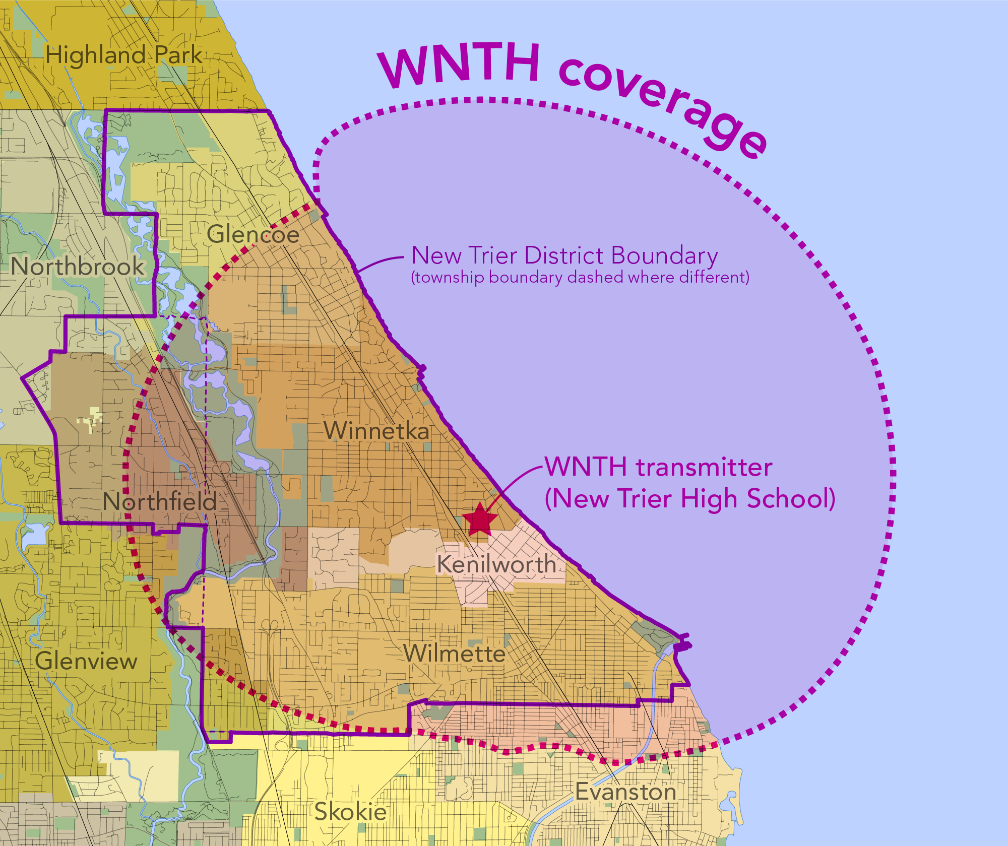 Protected coverage of WNTH, according to FCC contour